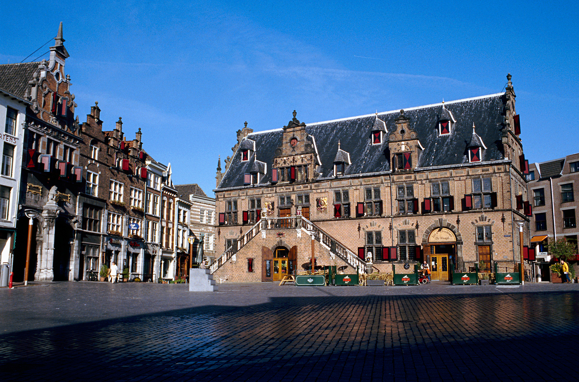 Nikon F 601 - scanned colour slide